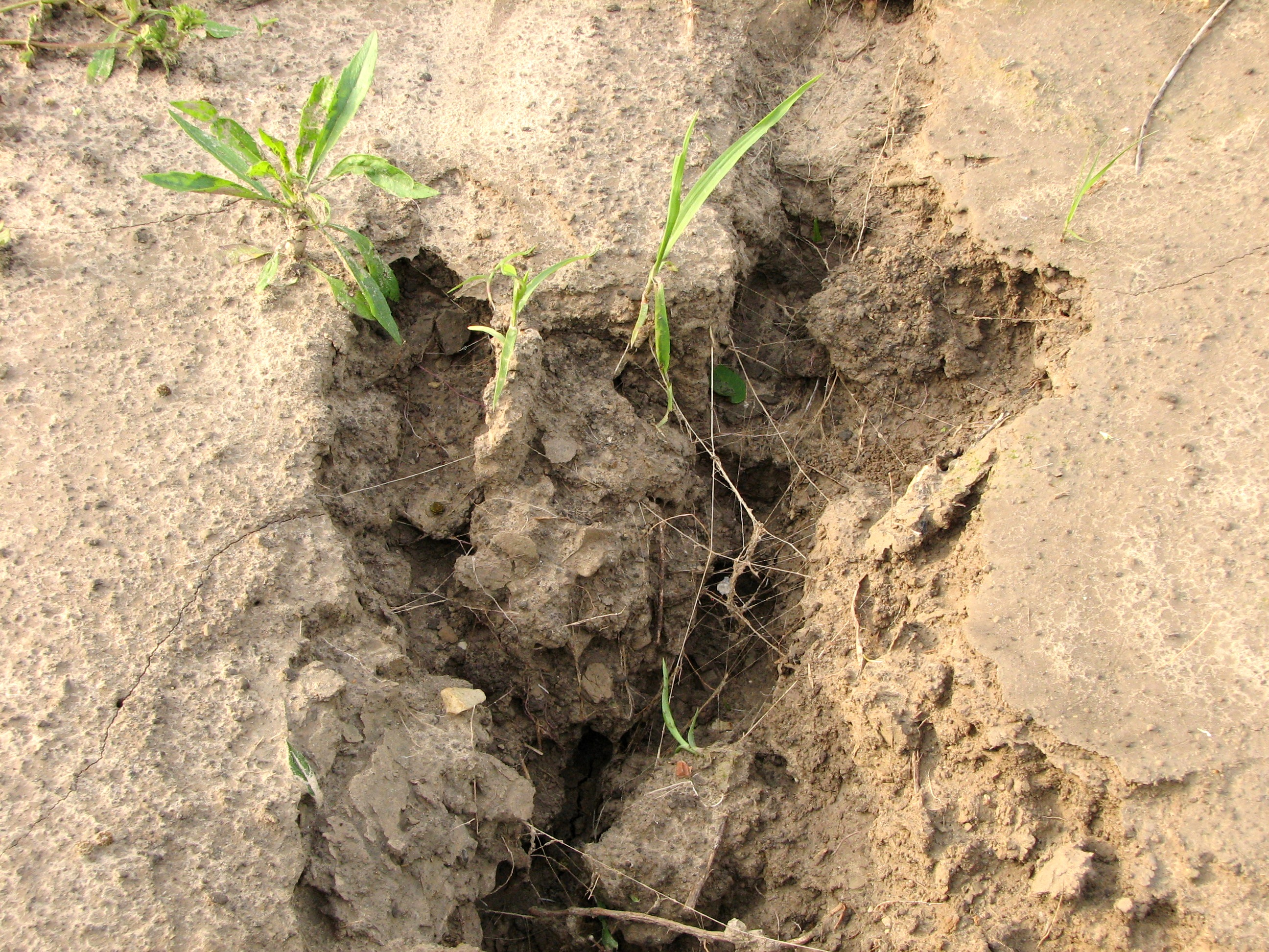 The gully was caused by rain water washing soil away. The roots of the tiny weeds have been exposed.